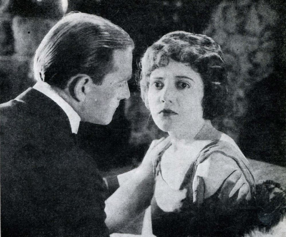 Conrad Nagel and Lois Wilson in Midsummer Madness (1921) published on page 79 of the January 1921 issue of Photoplay magazine.